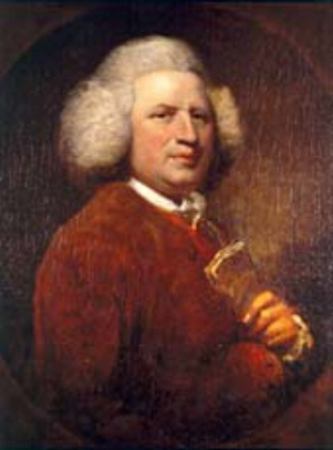 Portrait William Shipley of Richard Coswa